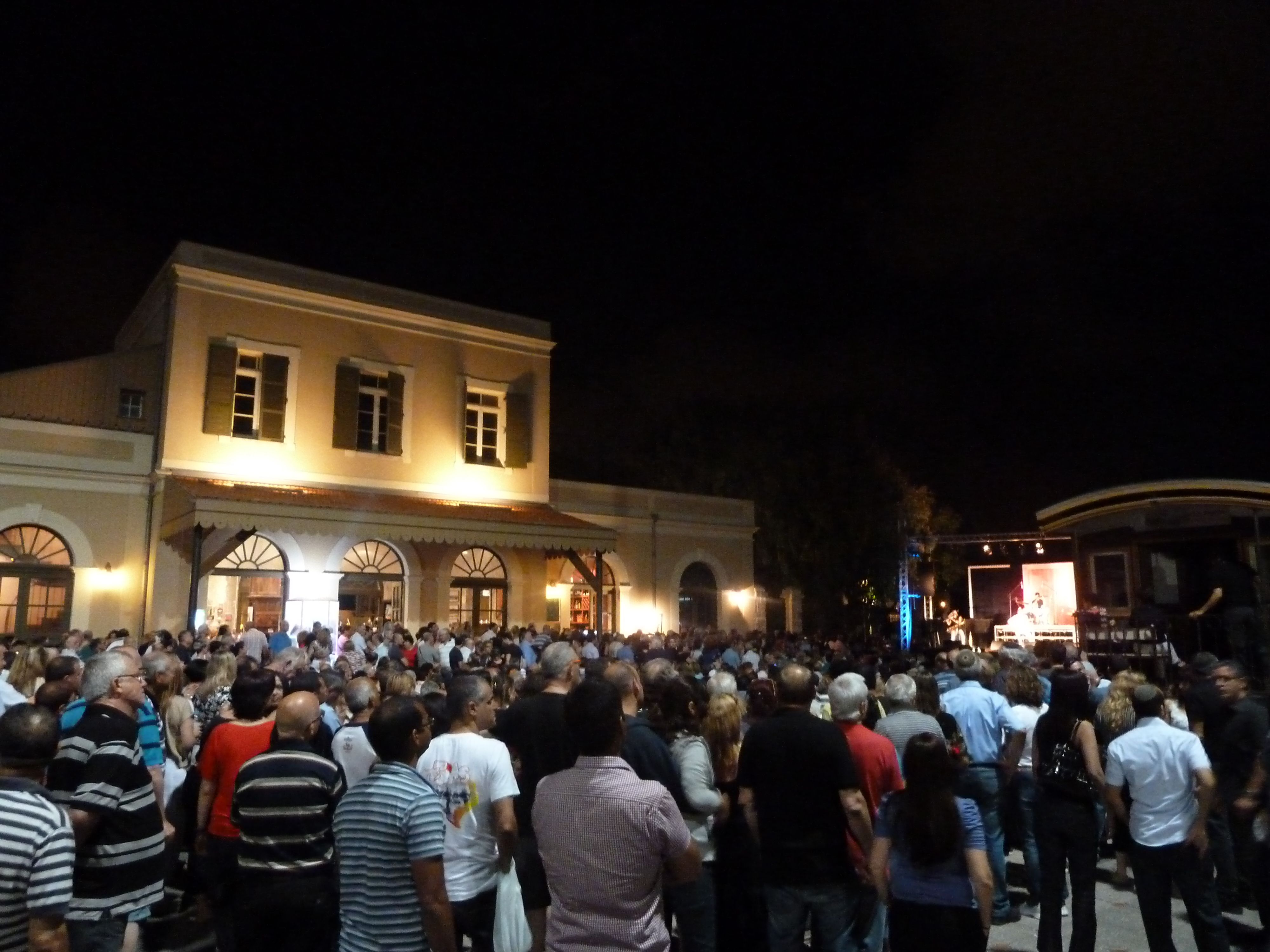 White Night in Tel Aviv, The Old Jaffa Railroad Station (Ha Tachana), Moshe Lahav performing